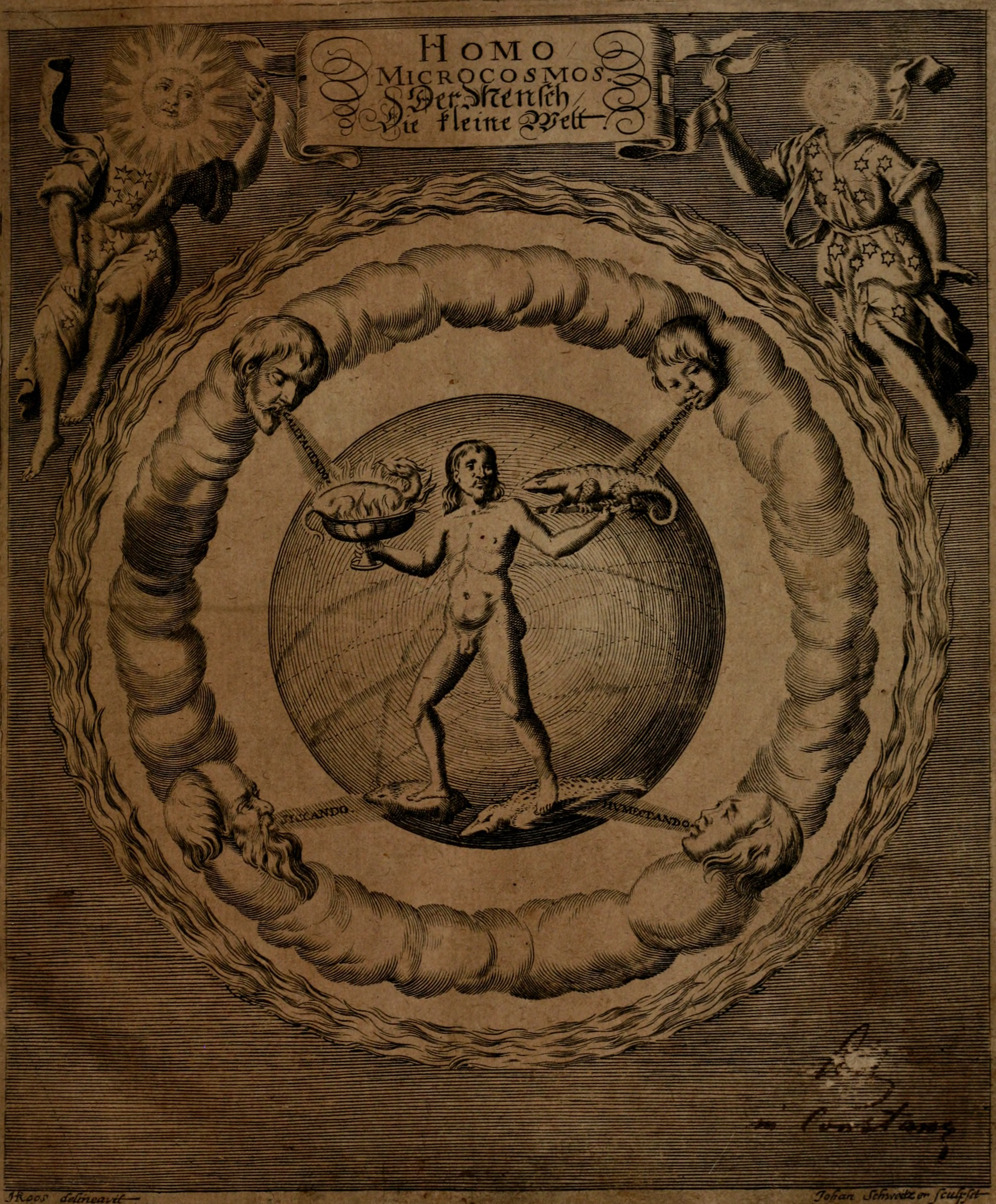 Title: Homo microcosmus, hoc est: parvus mundus, macrocosmo, id est: magno mundo, in variis æri incisis figuris totq; carminibus Latinis, per selectiores veterum poëtarum fabulas, nec non elegantiores quasdam historias, emblematice expositus; cujus hæc editio tertia. In qua Latina ista carmina puris rhythmis, Germanicis sunt donata ... Opus, non solùm ad studiosæ juventutis, sed etiam pictorum, sculptorum ... usum et delectationem adornatum Year: 1670 (1670s) Authors: Meyer, Martin, of Hayn, Silesia Subjects: Macrocosm Microcosm Publisher: Francofurti Text Appearing Before Image: ' Text Appearing After Image: / H O M O, MICROCOSMVS, BOC EST P A R V U S MUNDUS, MACROCOSMO, Idefl: Magno Mundo, in variis xxi incifis Figuris totqs carminibus Latinis,per fele&iores veterum Poetarum Fabu- las,nec non elegantiores quasdam Hif1:orias,emblematiceexpofitus;Cujus haec EDITIO TERTIA. ln cma Latina ifta carmina puris Rhythmis, GermanicisJunt do- nata,FabuU vero mythologice eluc idata,adjeclis brevibusjaft/altttaribtatEthico-Folitico-Theologicu Morahbus. Opus, nonfolumadftudiofejuventutis, fedetiam Pi&orum, Sculptorum,aliorumque Artificum Graphidi &C#latura2 incumbentium, ufum & delecta tionem adornatum, per Martinum Meyerum, HaynoviaSilefium. FRANCOFVRTl, Typis&ImpenfisDANIELIS FIEVETLhomomicrocosmush00meye